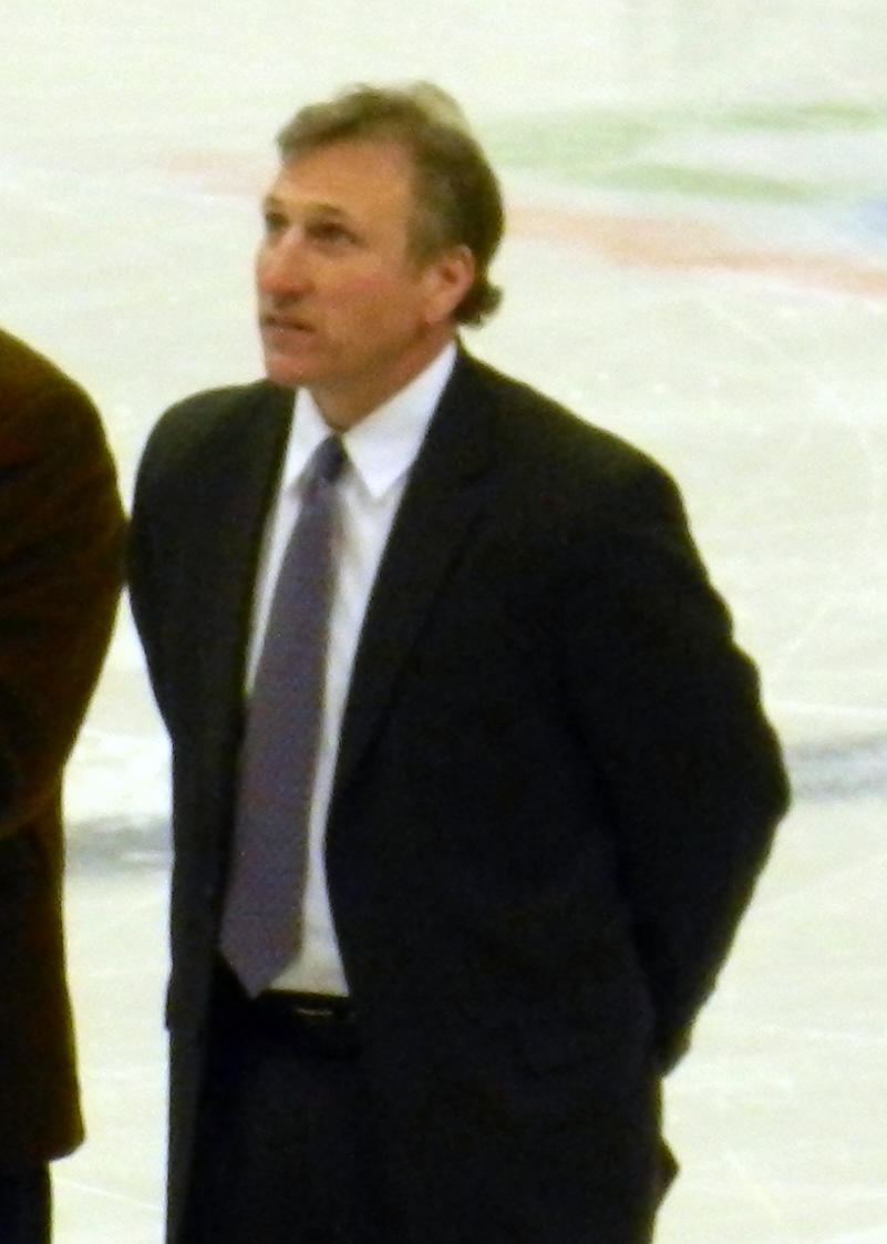 Pat Verbeek in 2014 before the cerimonial puck drop of the Frozen Dome Classic